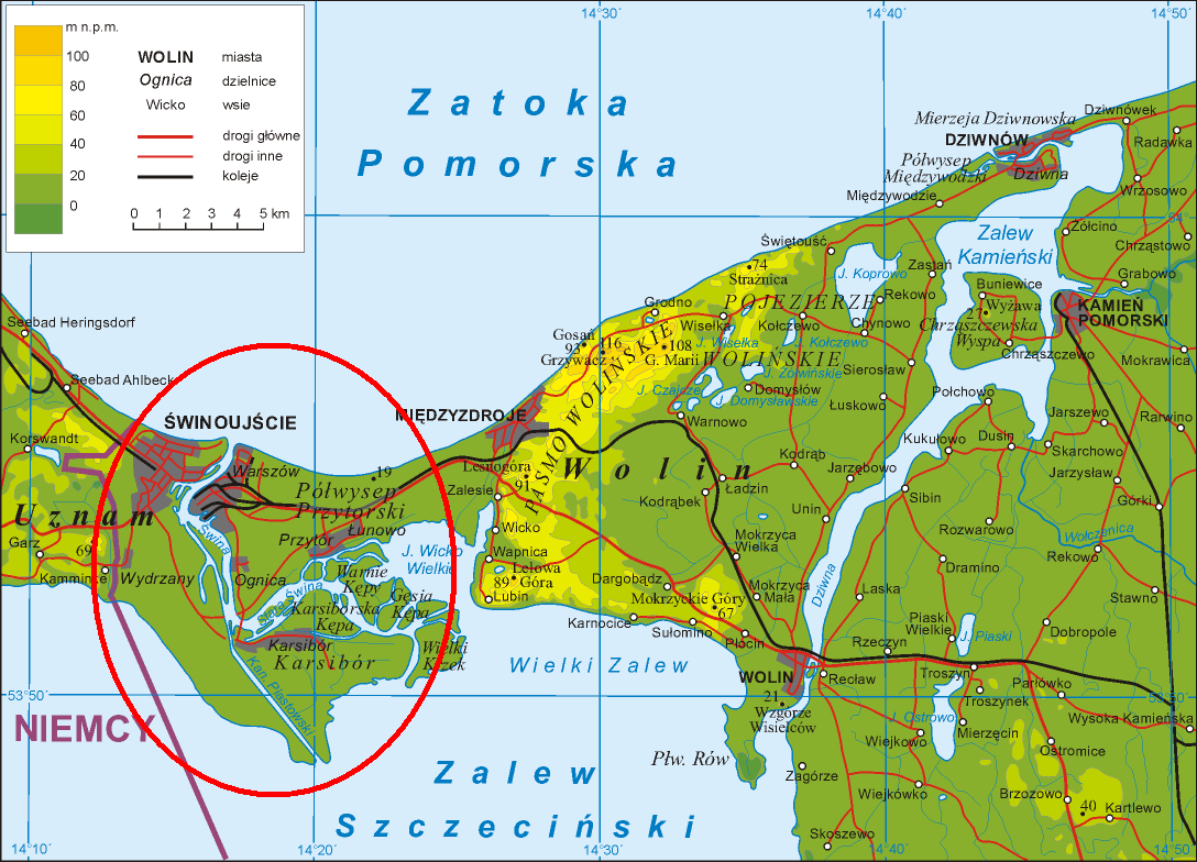 Map of Świnoujście- Polish description